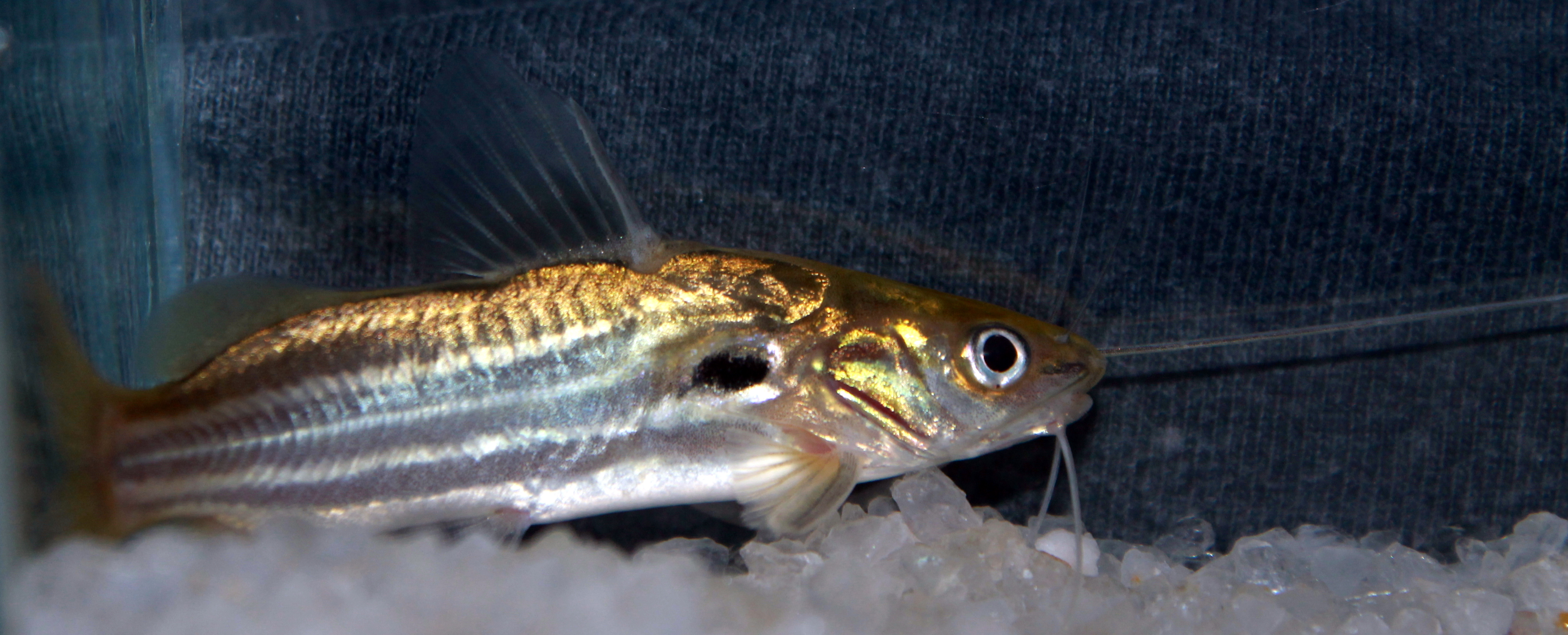 A medium sized Indian catfish widely available throughout the whole of Northern,Northeastern and Eastern India.